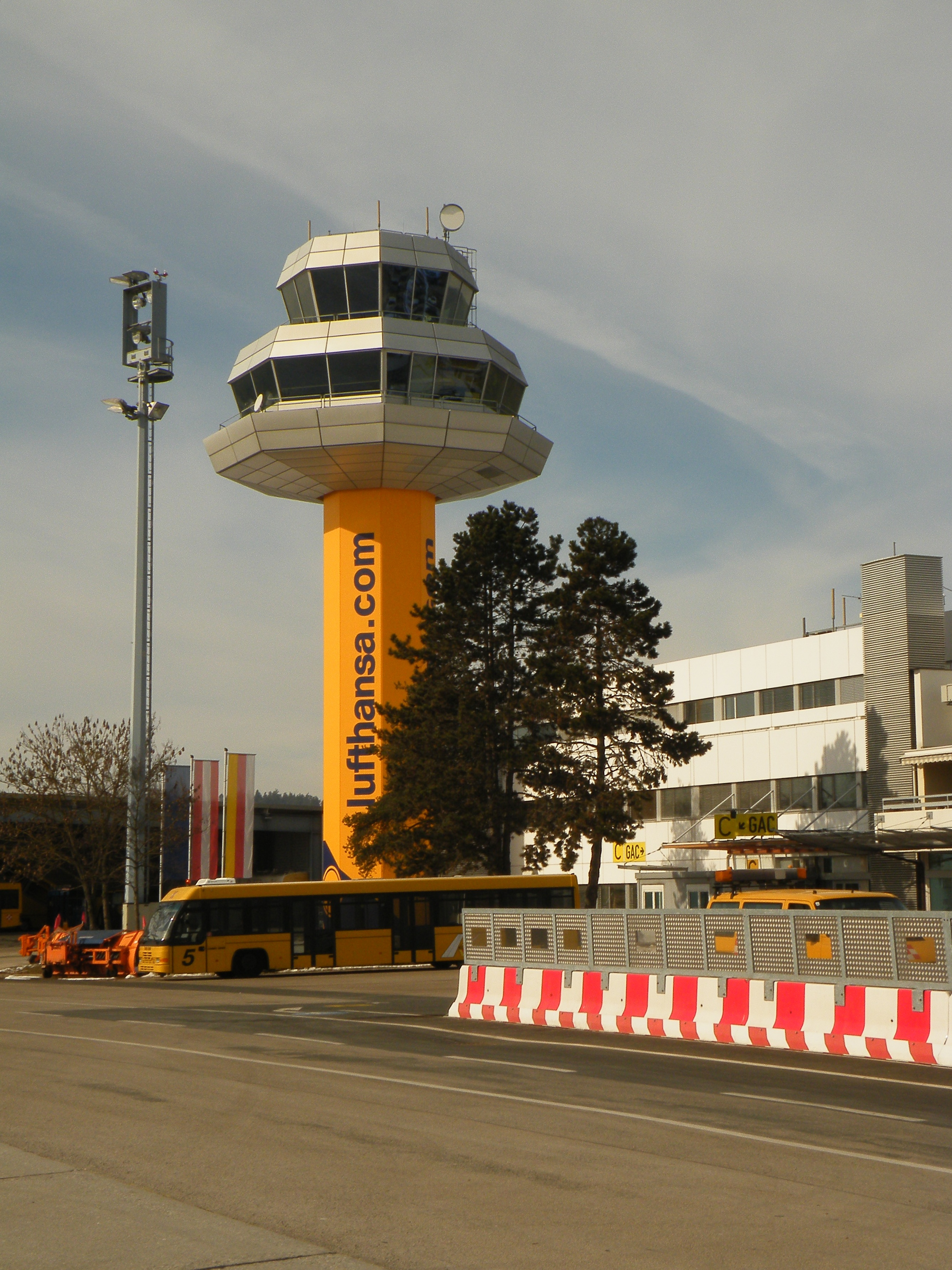 Control tower at Klagenfurt airport (Carinthia, Austria), covered by a Lufthansa advertisement.